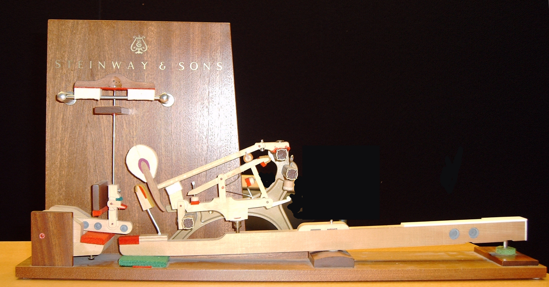 The key of a Steinway grand piano.